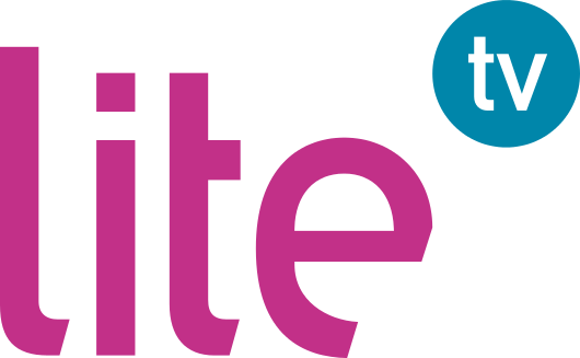 Logo of the television channel Lite TV